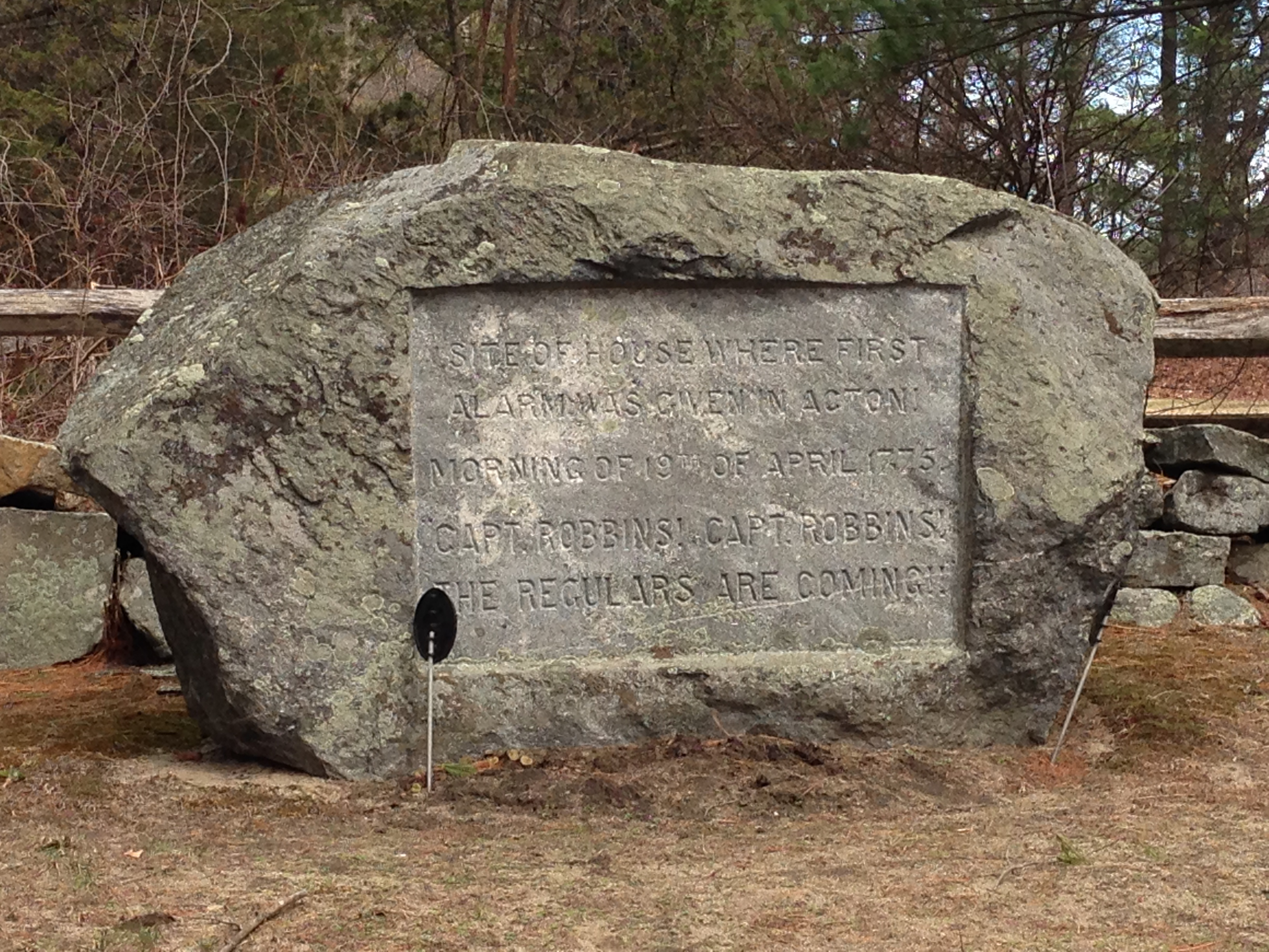 Acton alarm